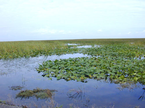 Freshwater marshes are generally wetlands with an open expanse of grasses and other grass-like plants. Freshwater marshes generally contain few, if any, trees and shrubs. Marshes have standing water for much of the year and act as natural filters. As water passes over the marsh, water flow is slowed down, and suspended particles settle out. Animals found in the marsh can include fish, invertebrates (animals without a backbone), frogs, snakes, alligators, white-tailed deer, the Florida panther, and other mammals. Many waterbirds and wading birds nest and forage (search for food) in marshes as well.